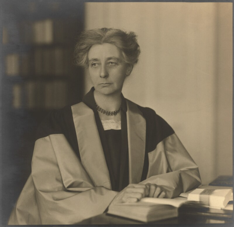 Eleanor Constance Lodge by Walter Benington, for Elliott & Fry, chlorobromide print, mid 1930s 142 mm x 148 mm Purchased in1996 by the National Portrait Gallery